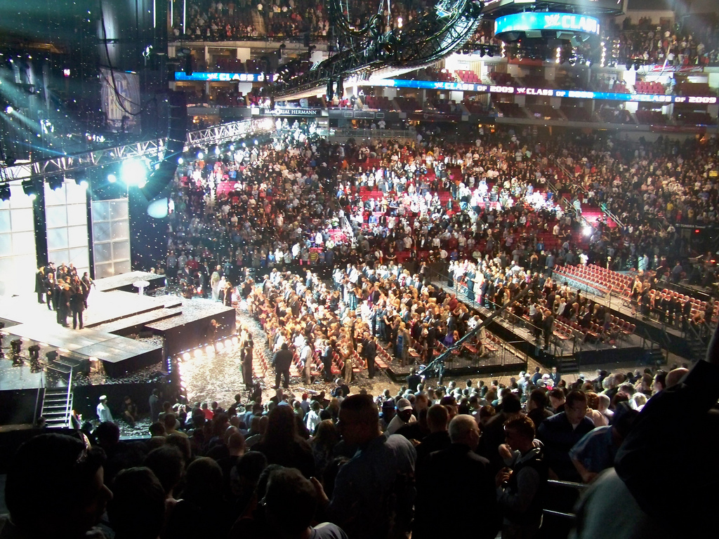 WWE Hall of Fame 2009 Ceremony (Toyota Center, Houston, Texas. April 4, 2009).